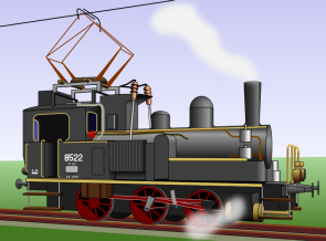 E 3/3 electric